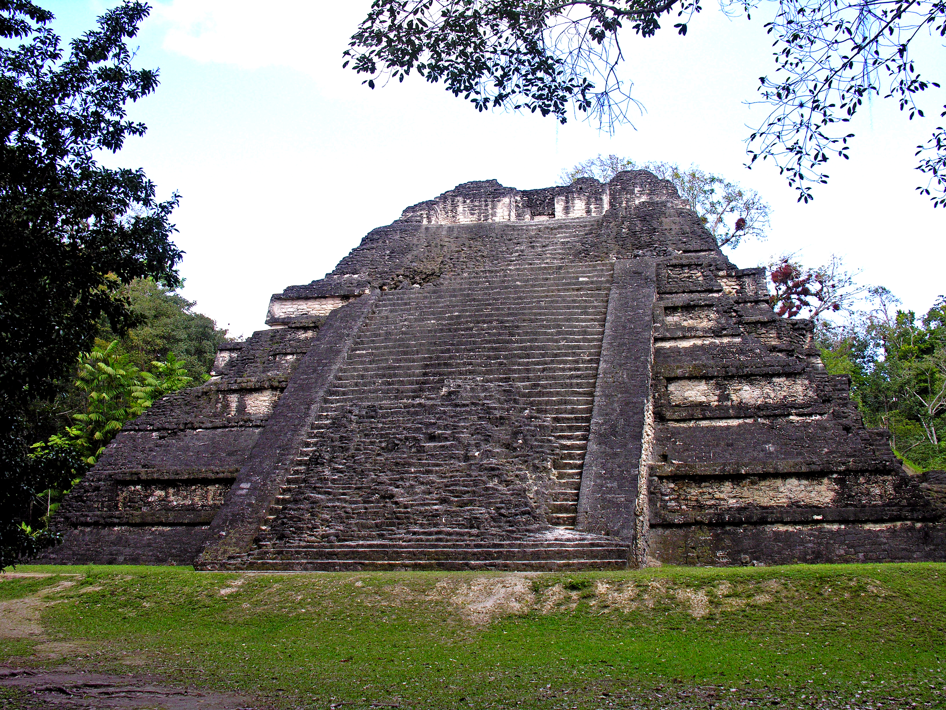 Another pyramid that is also in the Plaza of the Lost World.